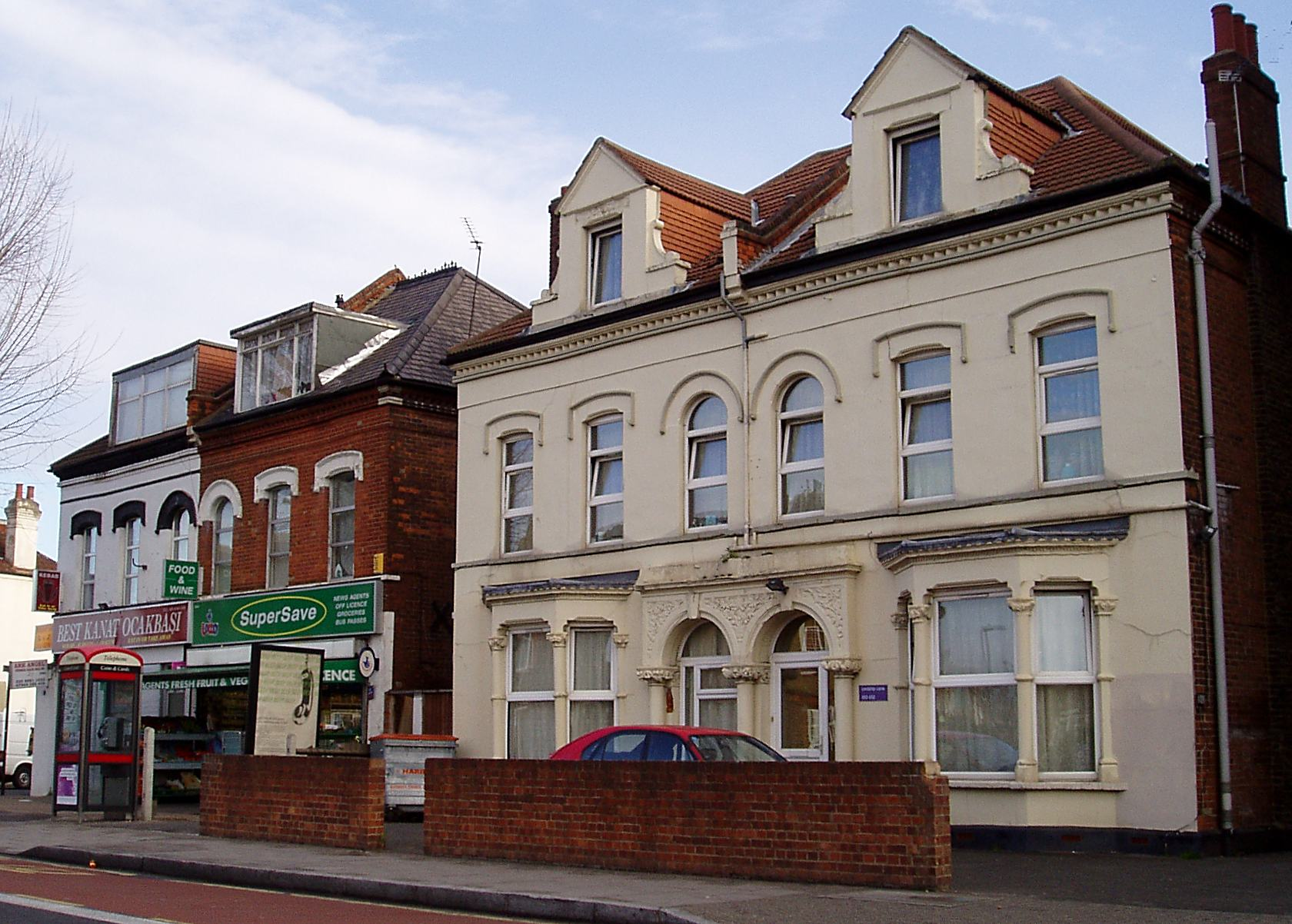 An image of a parade of shops and a semi-detached house on Lordship Lane. They are number 550 ro 556.